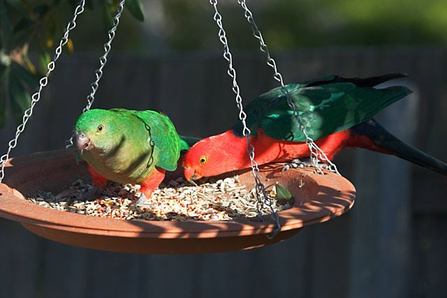 A pair of Australian King Parrots eating seeds from a bird feeder in North Lyneham, Australian Capital Territory, Australia.